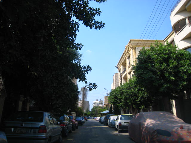 Monouf Street, Heliopolis